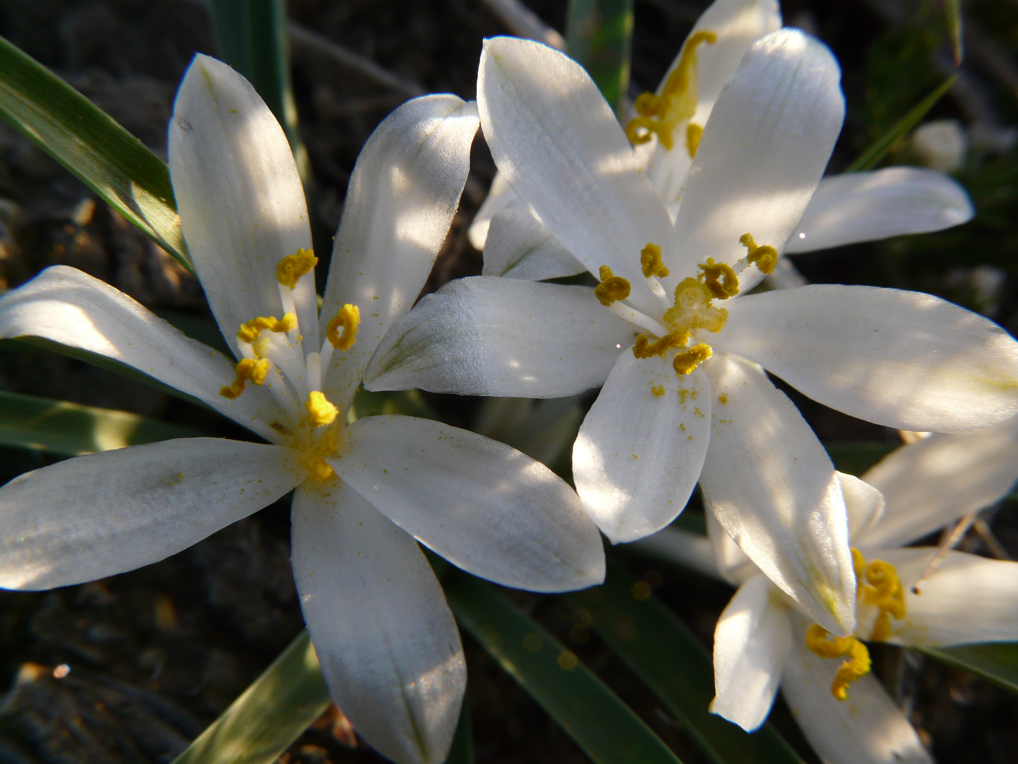 also called star lily (leucocrinum montanum)